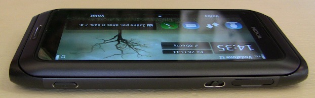 Picture of mobilephone Nokia E7